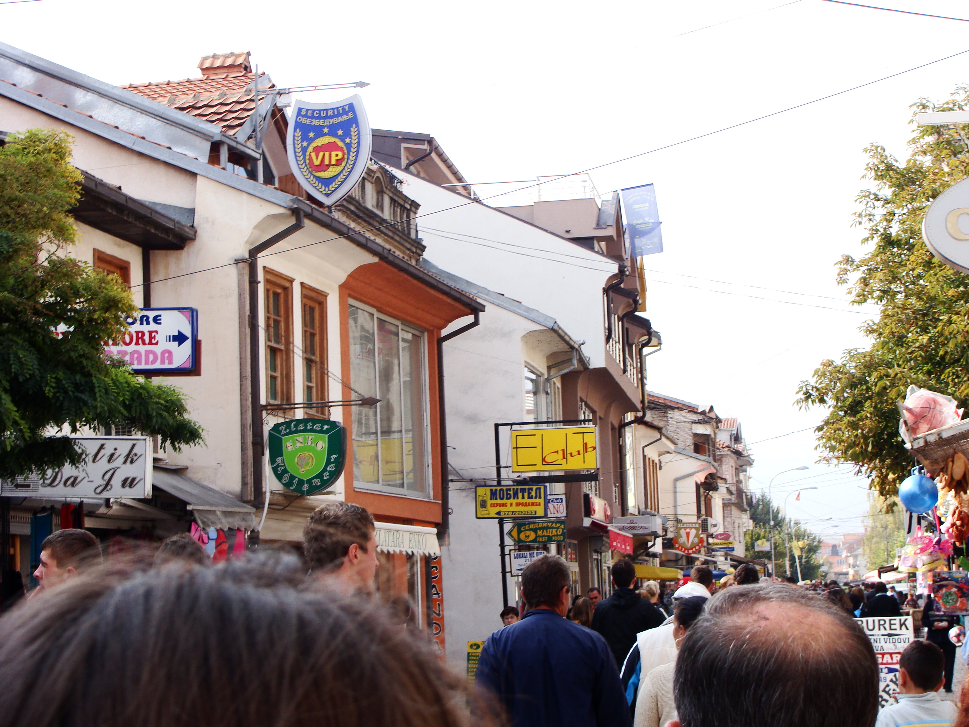 Struga, a town by the Ohrid lake.